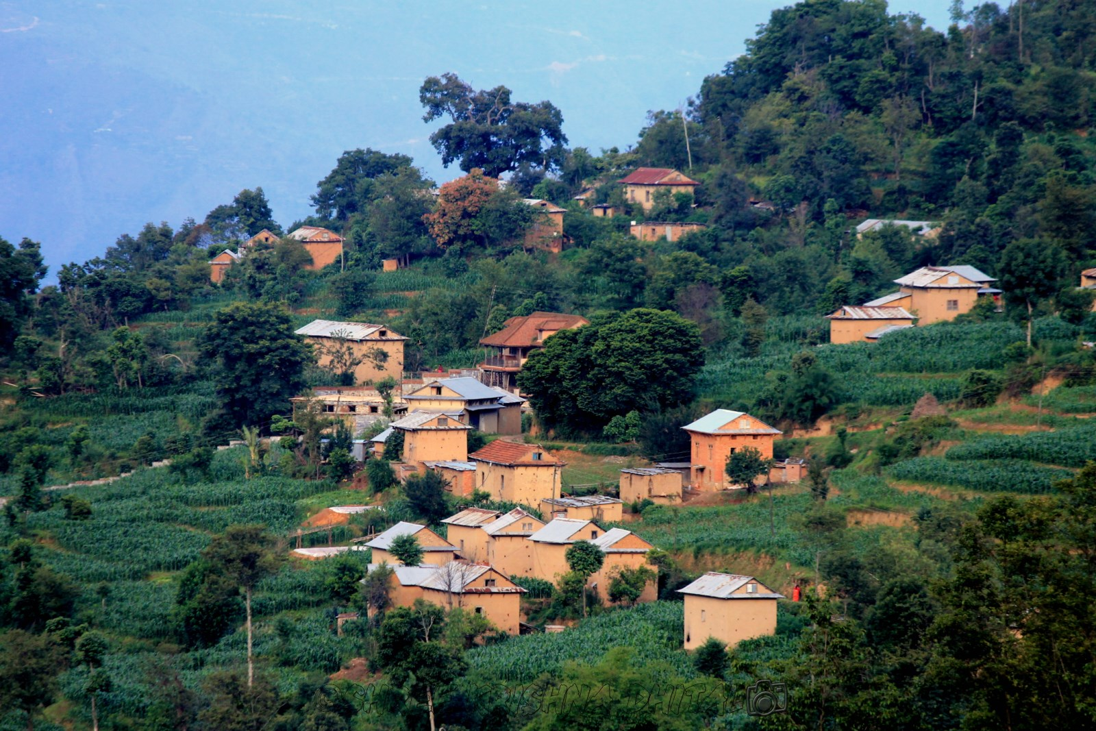 Phoolbari